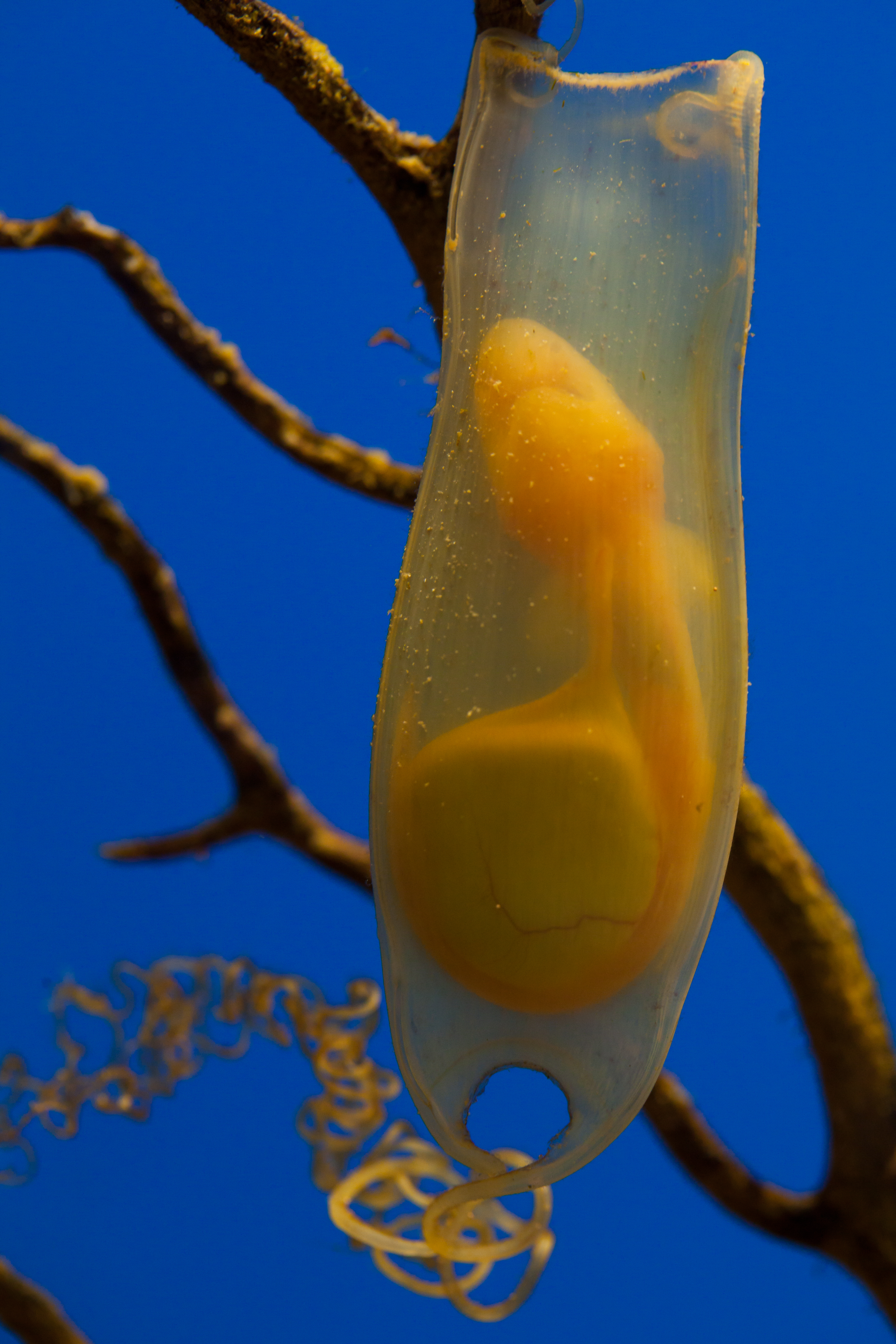 A foetus of a small-spotted catshark (Scyliorhinus canicula). In the photo the umbilical cord and food supply are clearly visible (see image notes).